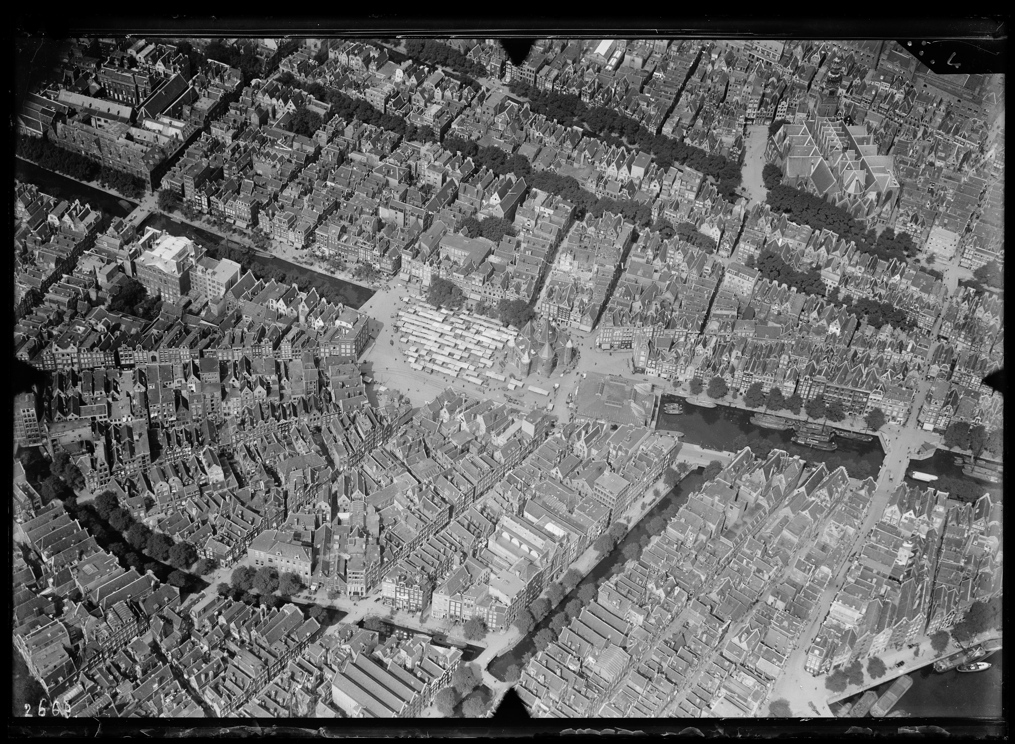 Aerial photograph of Amsterdam, The Netherlands. Waag, Nieuwmarkt.